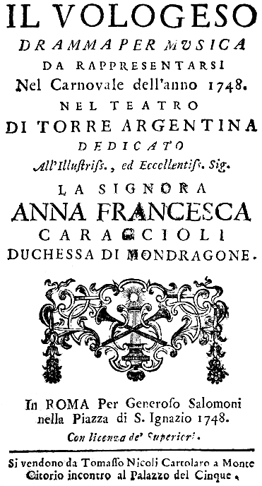 Baldassare Galuppi - Il Vologeso - titlepage of the libretto - Rome 1748